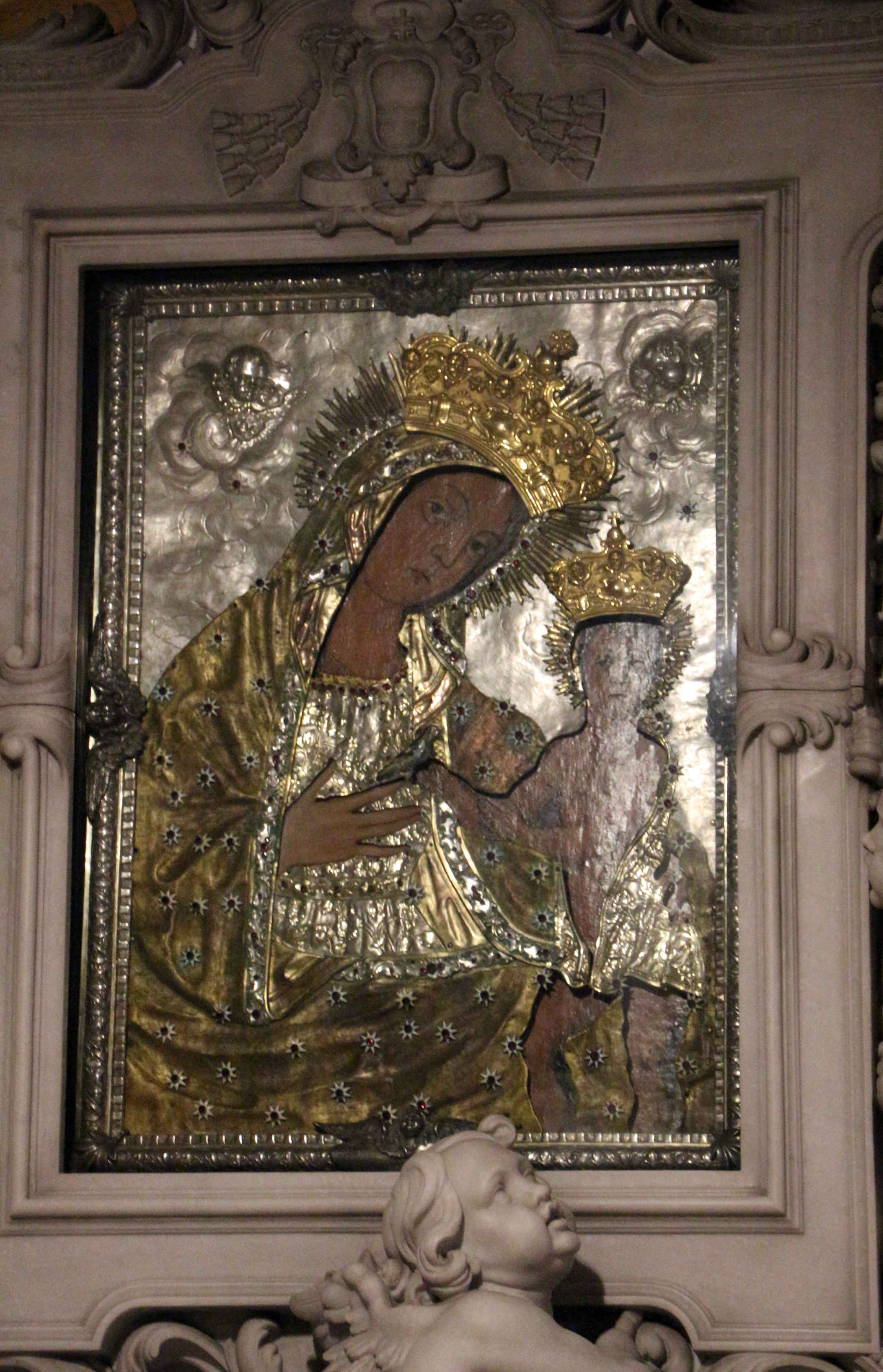 Cathedral (Bari)